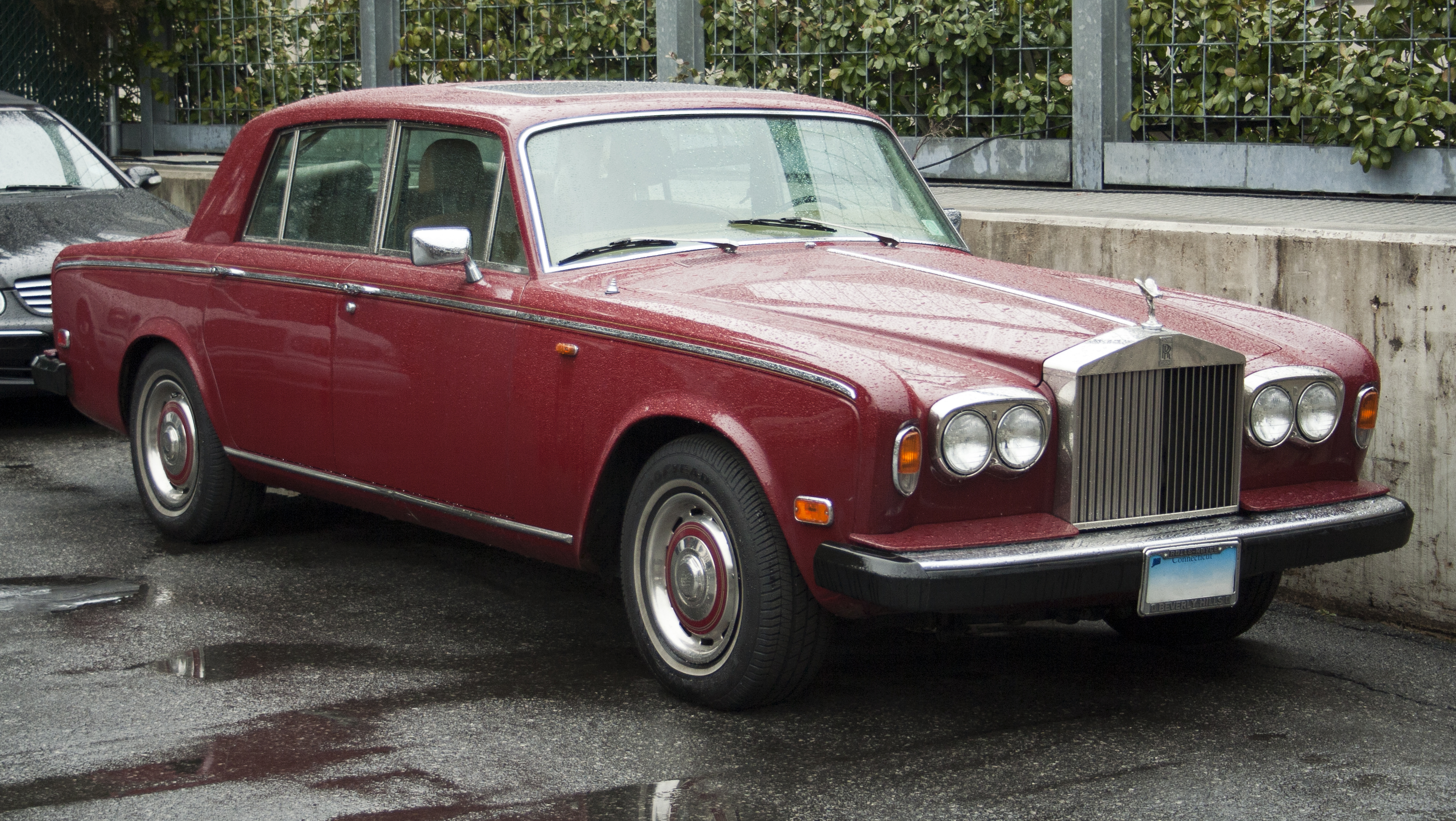 A 1979 Rolls-Royce Silver Shadow II